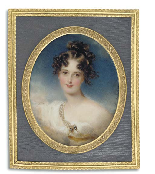 Princess Clementina Metternich (1804-1820) as Hebe, was the second daughter of Prince Metternich and his first wife, Maria Eleonora, née Kaunitz